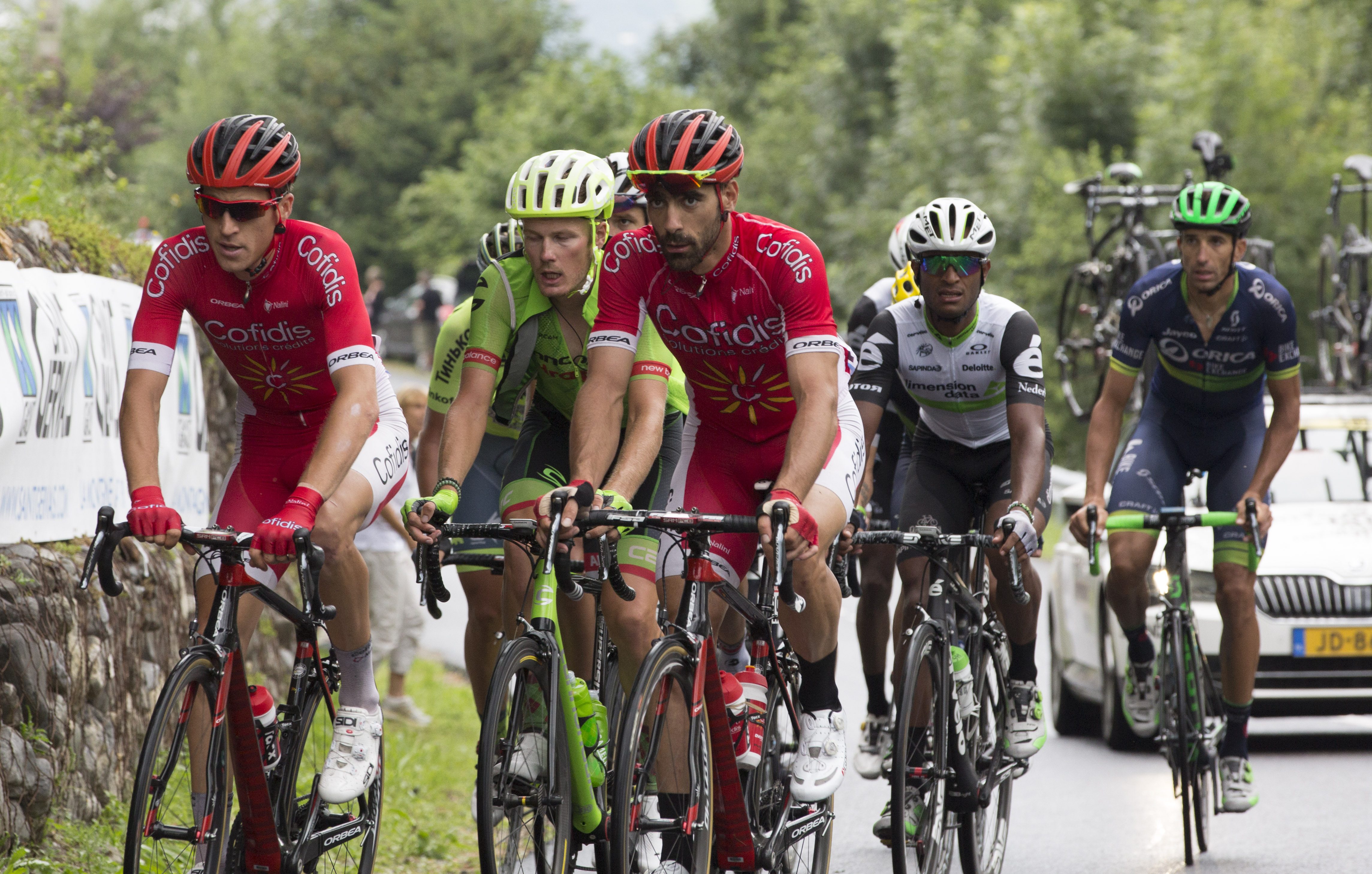 Stage 19 - Albertville to Saint-Gervais Mont Blan